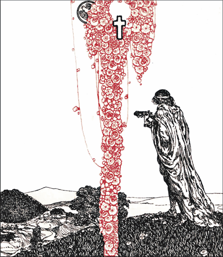 Illustration by Willy Pogany (1911) from the book, Walk Me Through My Dreams (A Picture book of Verses) by Joe Lindsay.